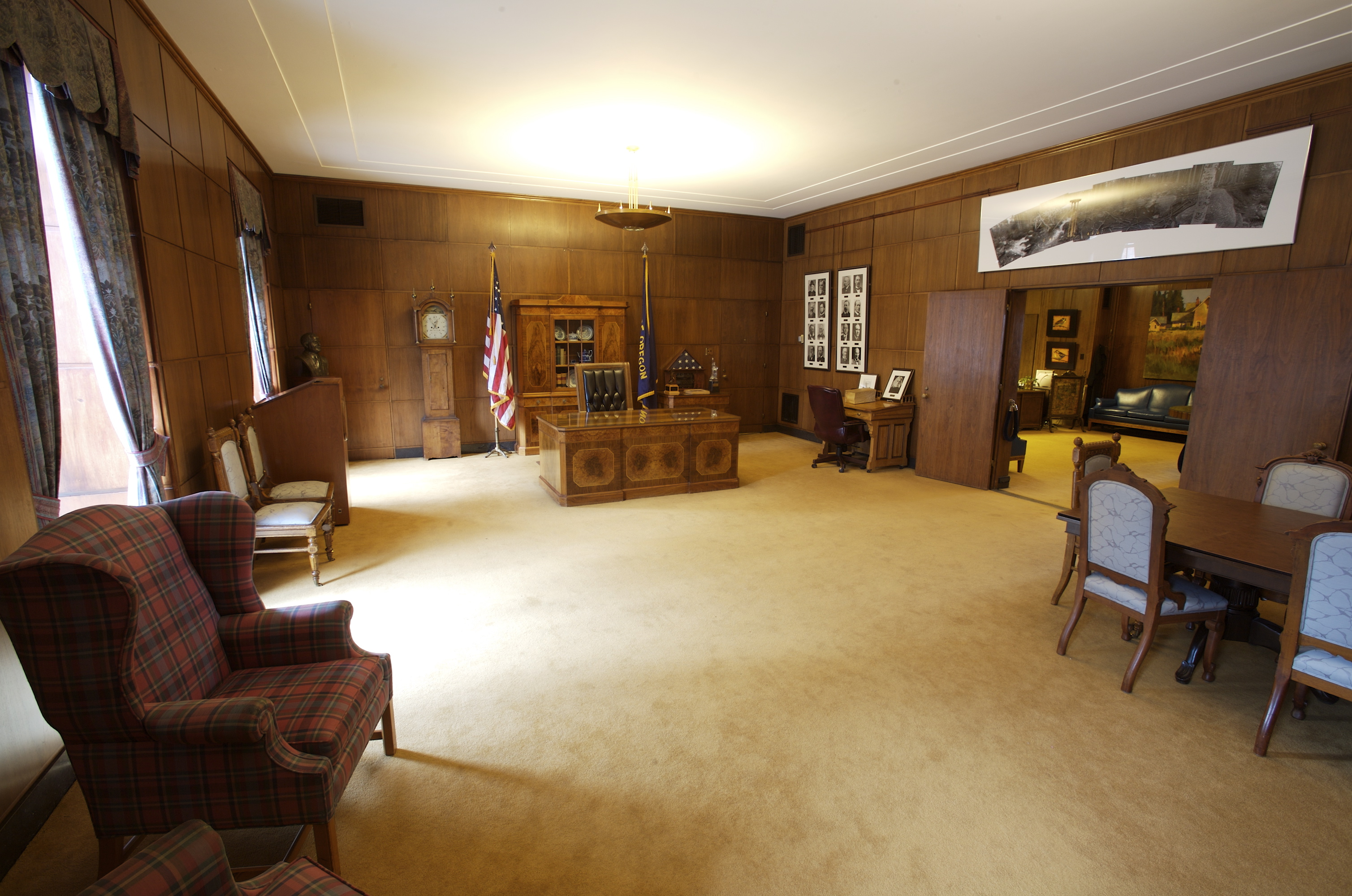 The Governors office at the Oregon State Capitol.